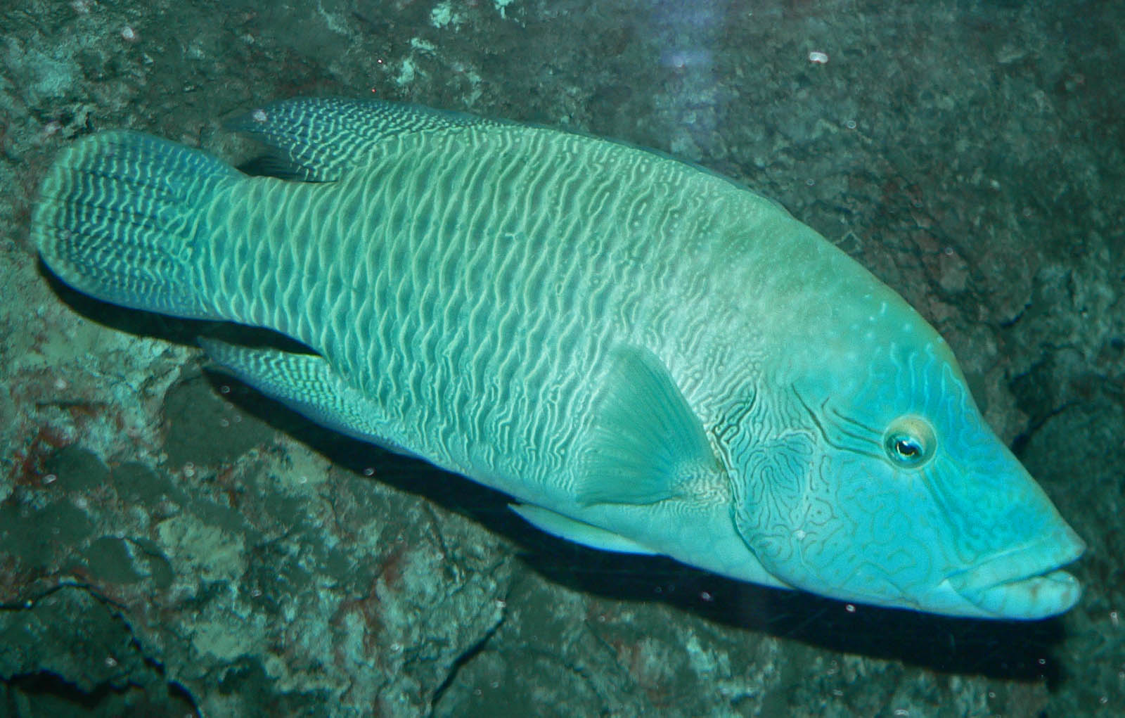 Photo of Cheilinus undulatus (humphead or napoleon wrasse) at the Vancouver Aquarium